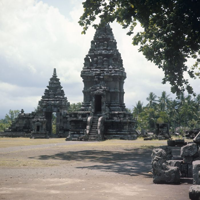 The Candi Lara Jonggrang or Prambanan temple complex